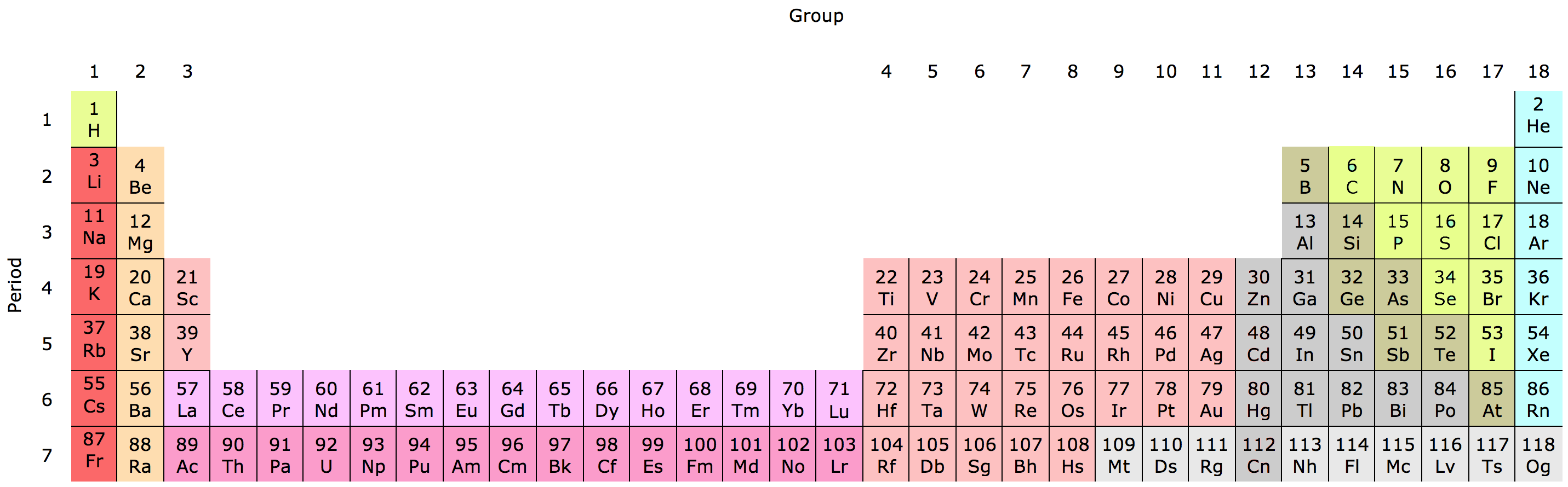 32-column periodic table with Sc, Y, La and Ac in group 3